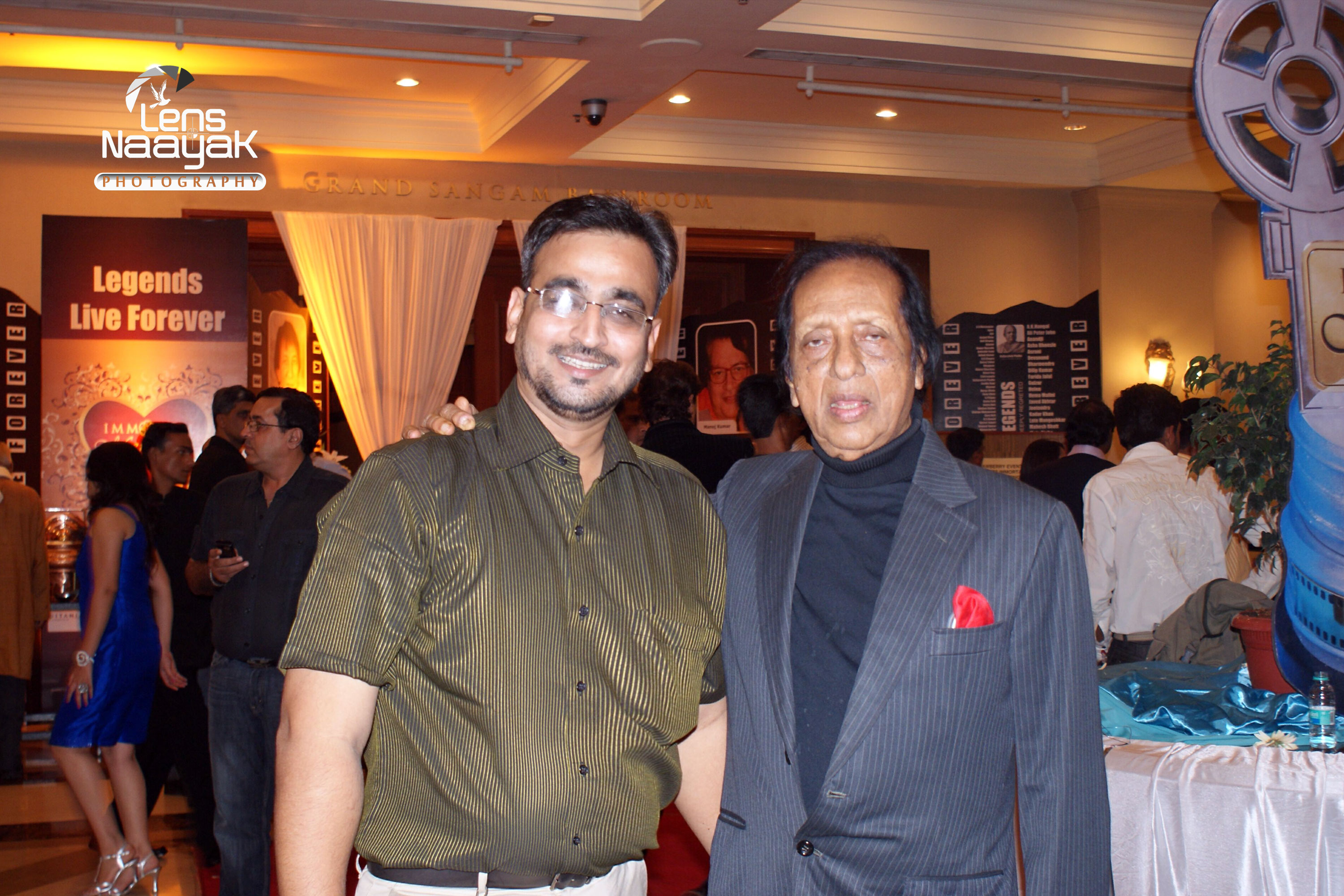 Bollywood Photographer Camaal Mustafa Sikander with Bollywood Actor Chandrashekhar